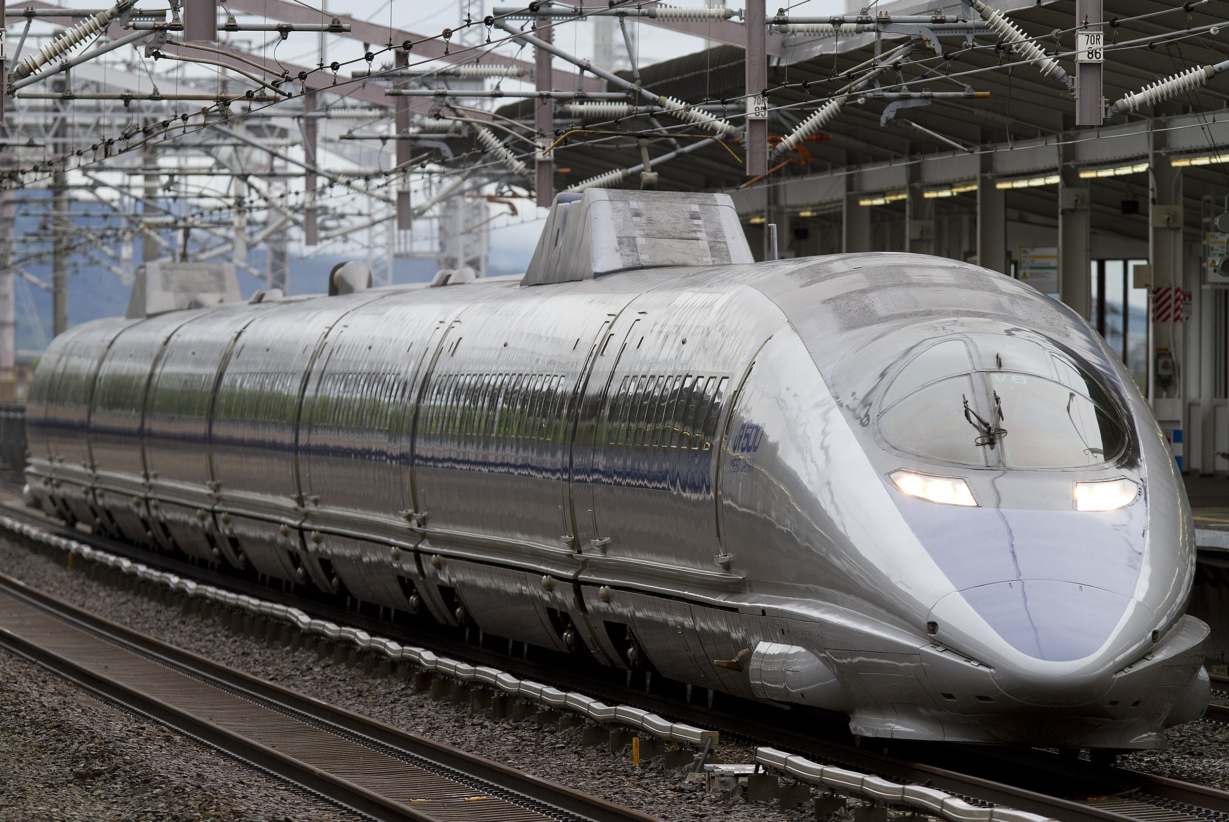 JR West 500 series shinkansen set V6 passing through Shin-Kurashiki Station on a Hikari service